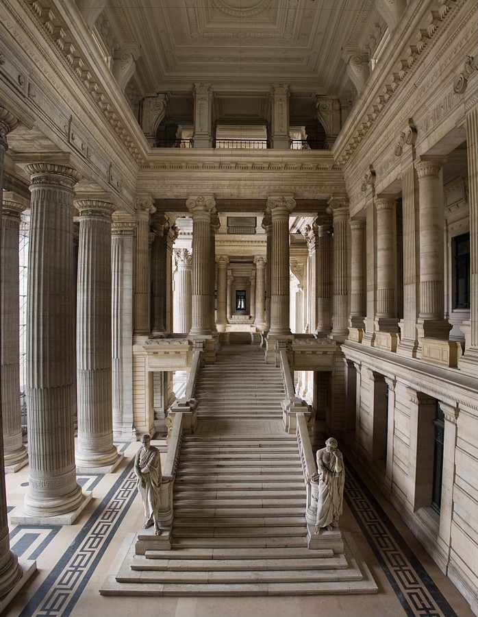 Staircase at the entrance of the court hall, Brussels